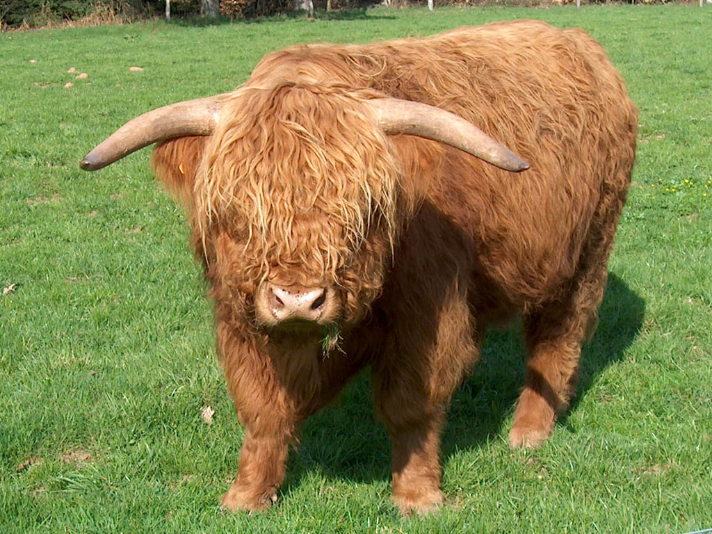 highland cattle cow